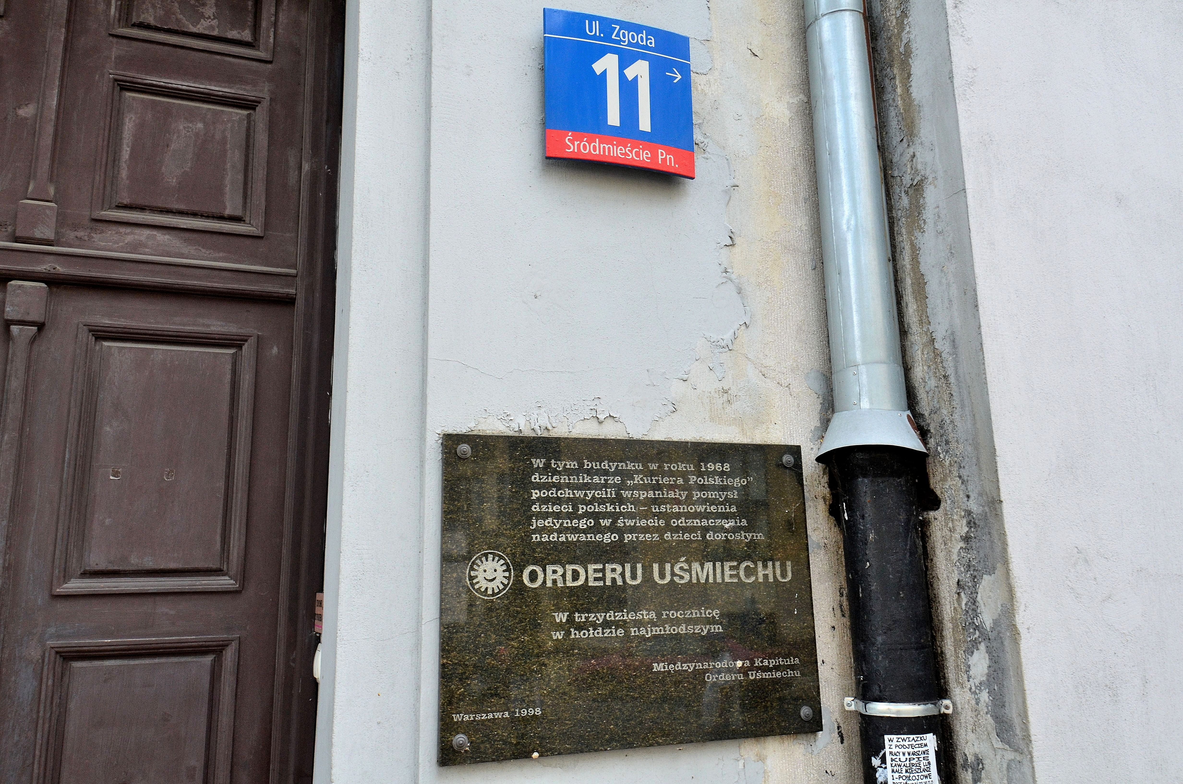 Plaque commemorating establishing the Order of the Smile at 11 Zgoda Street in Warsaw